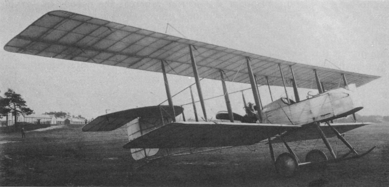 The only Vickers F.B.6, showing its long span upper wings at Farnborough on 1914-10-27. Serial no. 704